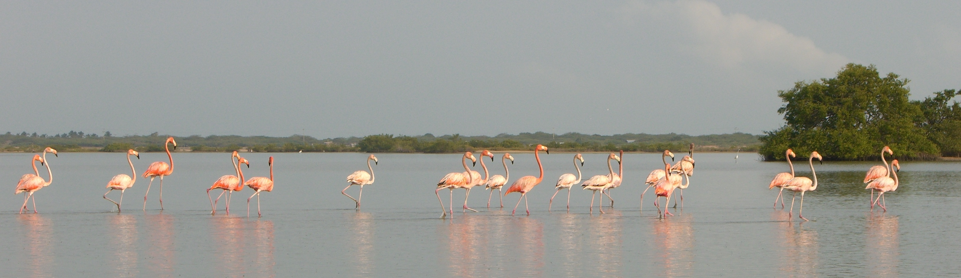 Flamingos in the Colombian national park Los Flamencos